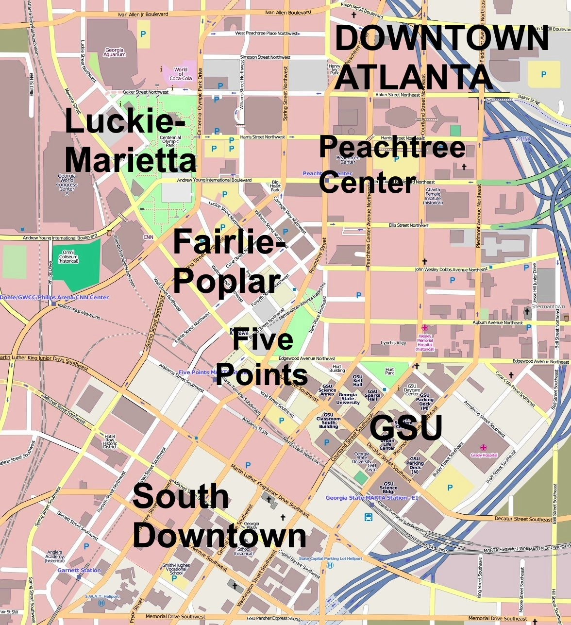 This map may be incomplete, and may contain errors. Don't rely solely on it for navigation. Border coordinates {34.74423 } {-84.40401 }←↕→ {-84.36247 } {33.76613 }